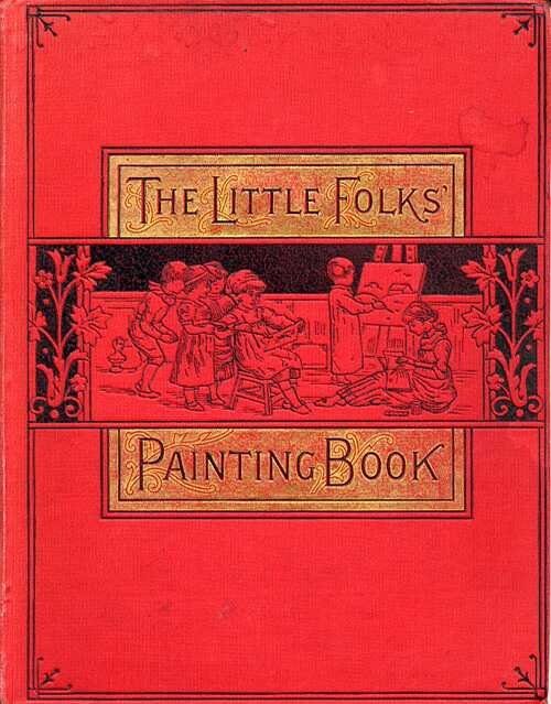 The original cover of The Little Folks Paint Book, often credited as the first colouring book. It was published in 1879 (according to some sources, others say the 1880s) by the McLoughlin Brothers, and was illustrated by Kate Greenaway. Source- direct link/imbedded on page